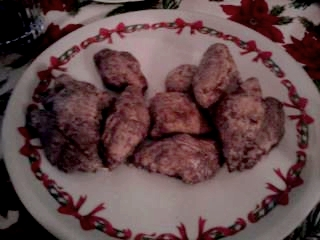 Pizzicanelli, type of cookies from Basilicata (Italy)